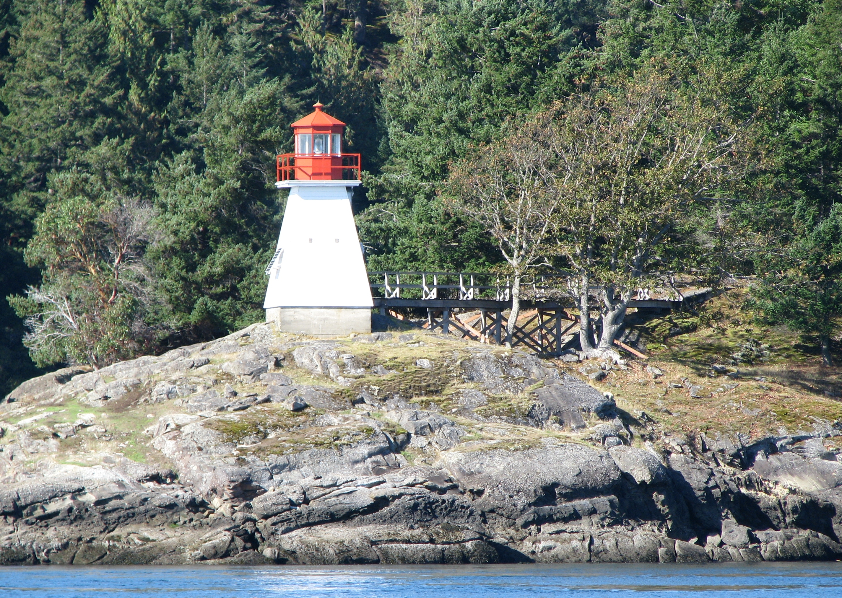 Portlock Point Lighthouse, Prevost Island, Gulf Island, British Columbia at the junction of Trincomali Channel, Swanson Channel, Navy Channel and just south of Active Pass.